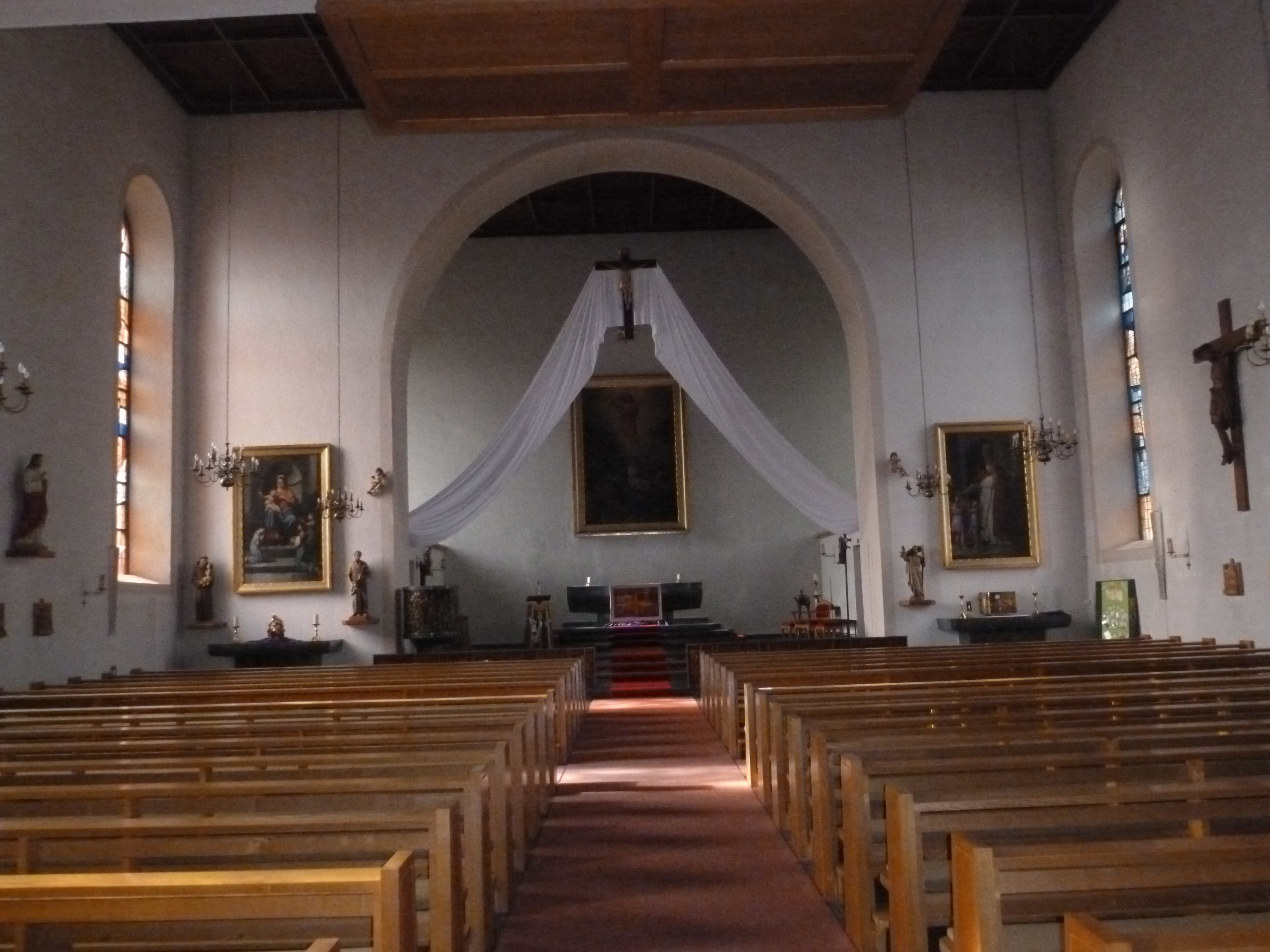 Interior of church St. Nikolaus (Ichenheim, Neuried, Baden-Württemberg, Germany), viewed towards altars